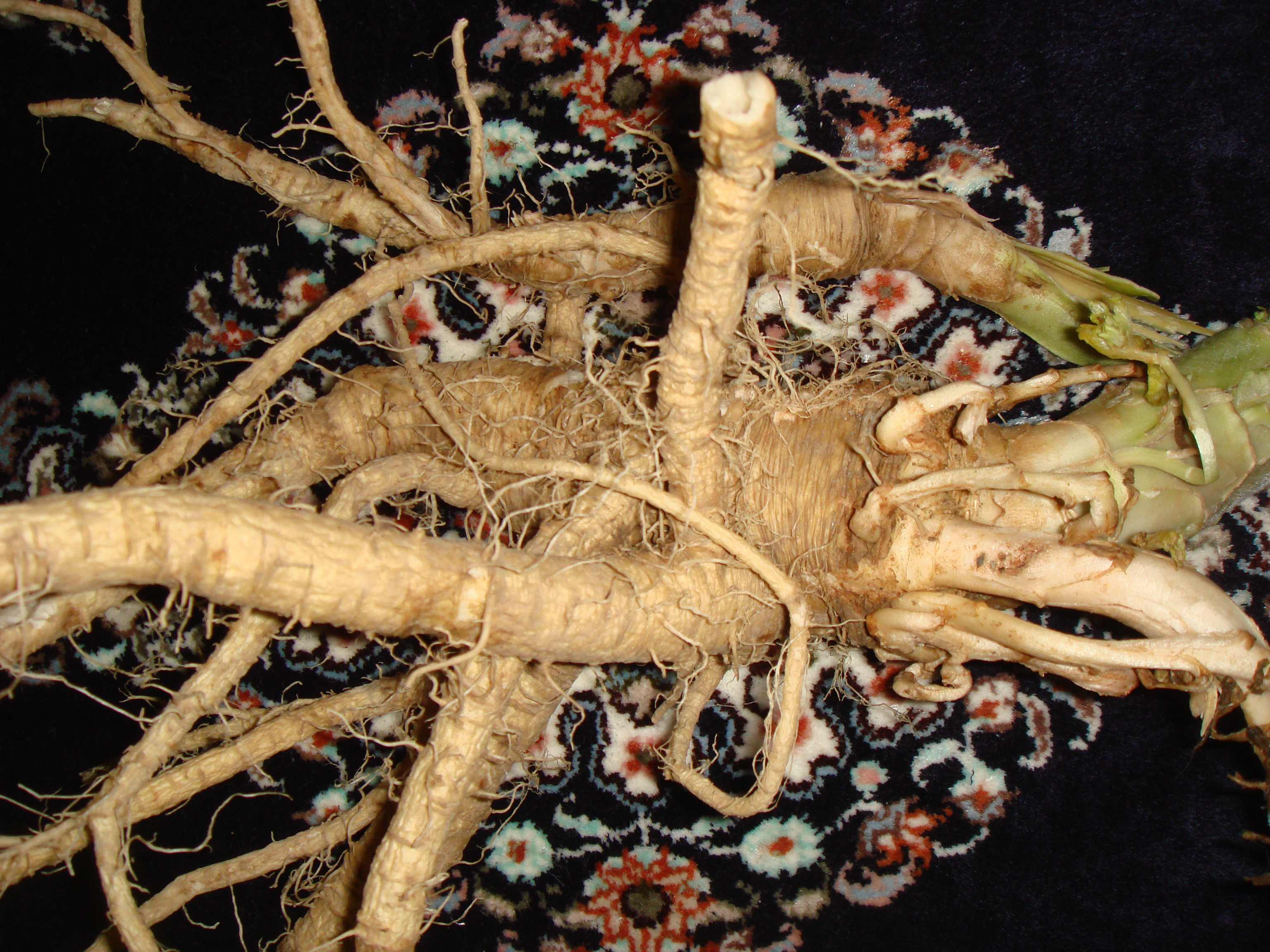 Hyoscyamus niger biennial plant root. Dug out and washed.